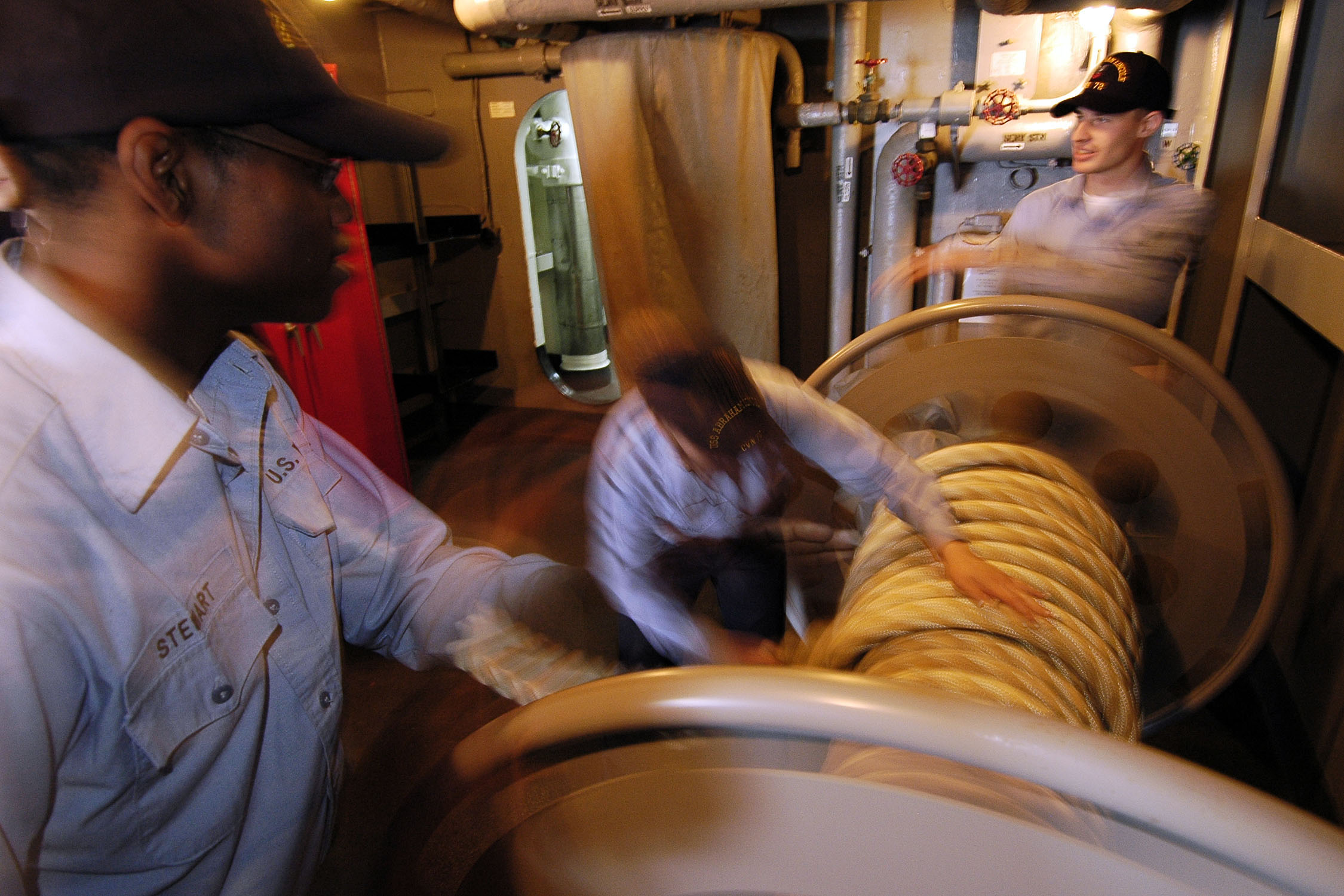 Pacific Ocean (June 5, 2005) - Sailors from deck department load a mooring line on to a line reel as the Nimitz-class aircraft carrier USS Abraham Lincoln (CVN 72) depart from Naval Air Station North Island, San Diego. Mooring lines are used to hold ships in place while in port. Lincoln is currently underway conducting readiness training in support of the Fleet Response Plan. U.S. Navy photo by Photographer’s Mate Airman Jordon R. Beesley (RELEASED)